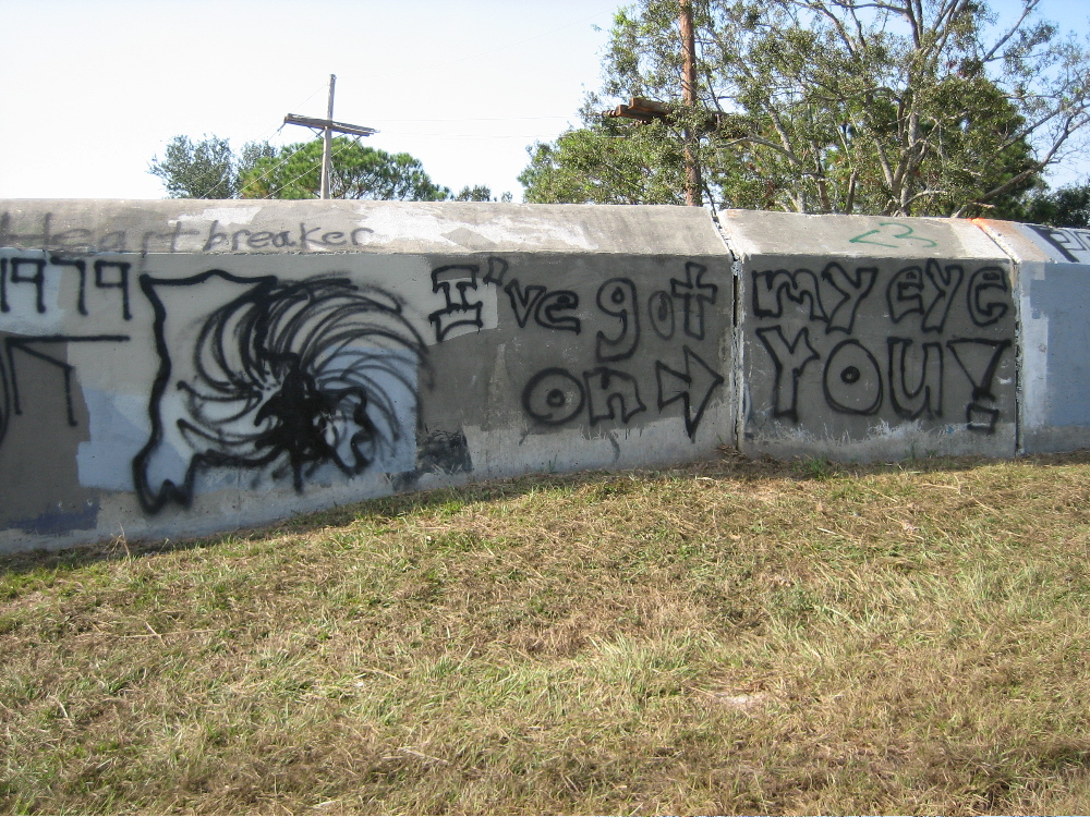 New Orleans after Hurricane Katrina: Graffitti along the Metarie side of the flood wall atop the 17th Street Canal, showing a map of Louisiana with New Orleans marked by a fleur-de-lis as the center of a hurricane, with the caption "I've Got My Eye On You!". Presumably this was put up shortly before Katrina hit. This part of the levee stayed intact. The waters did not rise to the height of the flood wall here, probably due to the major breech on the other side closer to the lake. Note the crack in the flood wall joint.